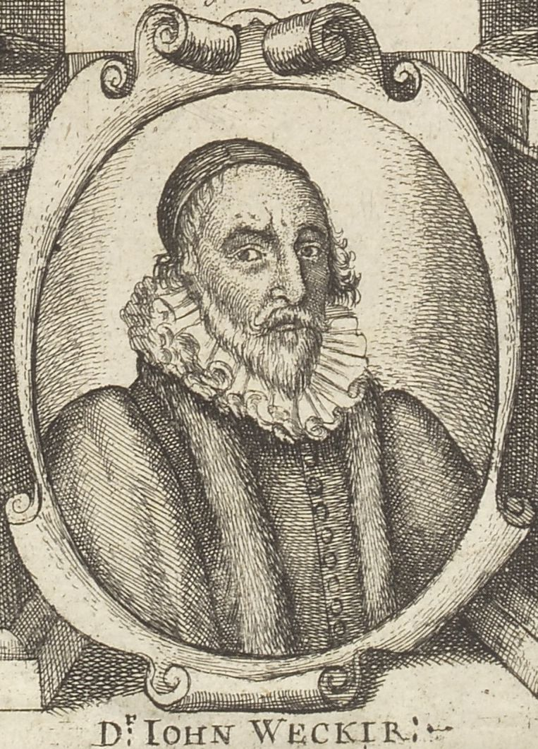 L0035108 Engraved title page to Wecker's 'Secrets of Art and Nature..' Credit: Wellcome Library, London. Wellcome Images Engraved title page to: Eighteen books of the secrets of art and nature, being the summe and substance of naturall philosophy, methodically digested ..., London 1660. Above Alexis of Piedmont and Albertus Magnus; centre: William Harvey and Francos Bacon drawing aside a curtain to reveal secrets; below: Dr.R.Reade, Dr. John (Johann Jacob) Wecker and Ramund Lullius. Engraving 1660 By: Robert GaywoodEighteen books of the secrets of art and nature, being the summe and substance of naturall philosophy, methodically digested / First designed by John Wecker and now much augmented and inlarged by Dr. R. Read. [Translated by William Rowland] ; a like work never before in the English tongue Johann Jacob Wecker Published: - Printed: 1660 Copyrighted work available under Creative Commons Attribution only licence CC BY 4.0